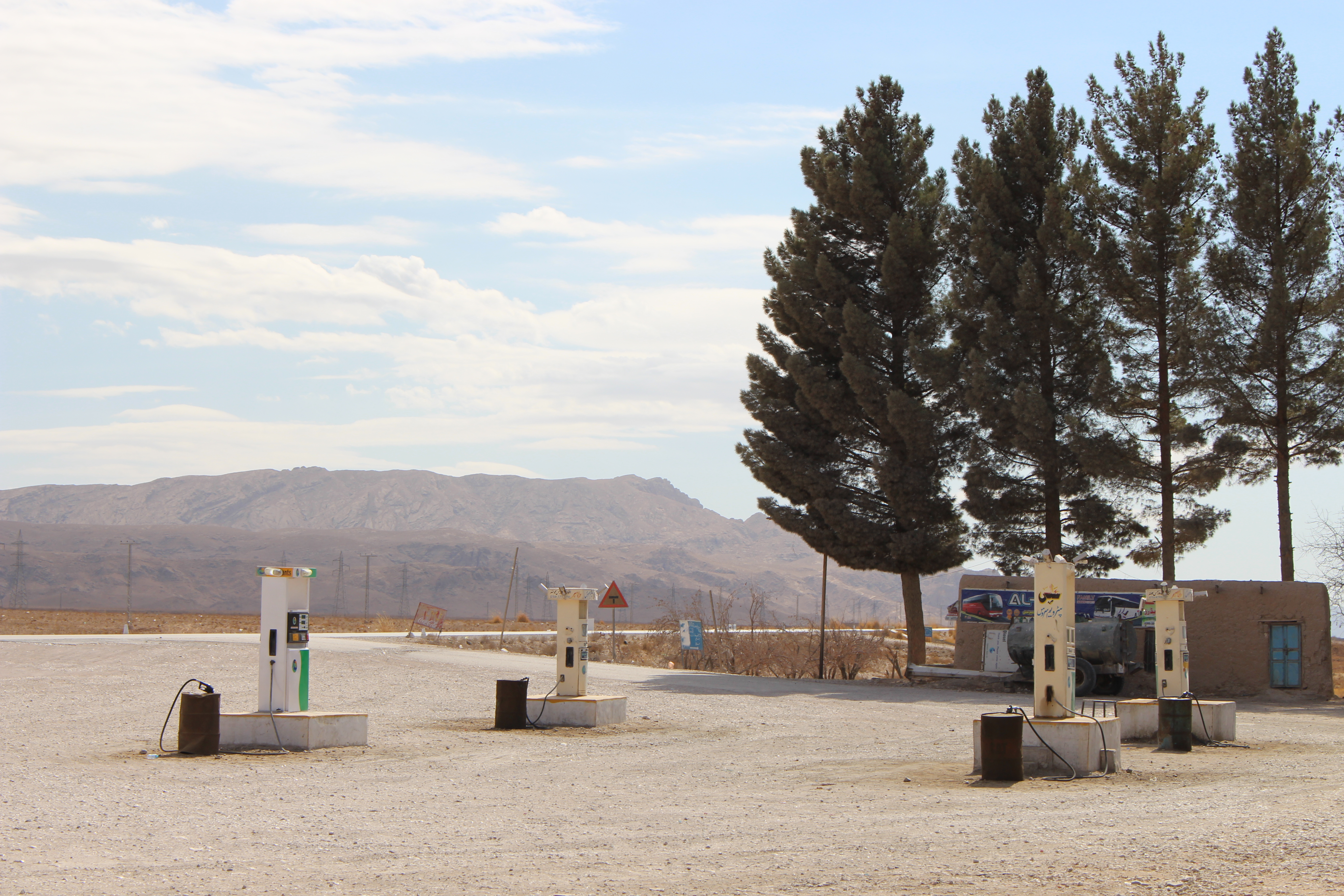 a petrol pump in national highway N-25 Baluchistan, Pakistan.